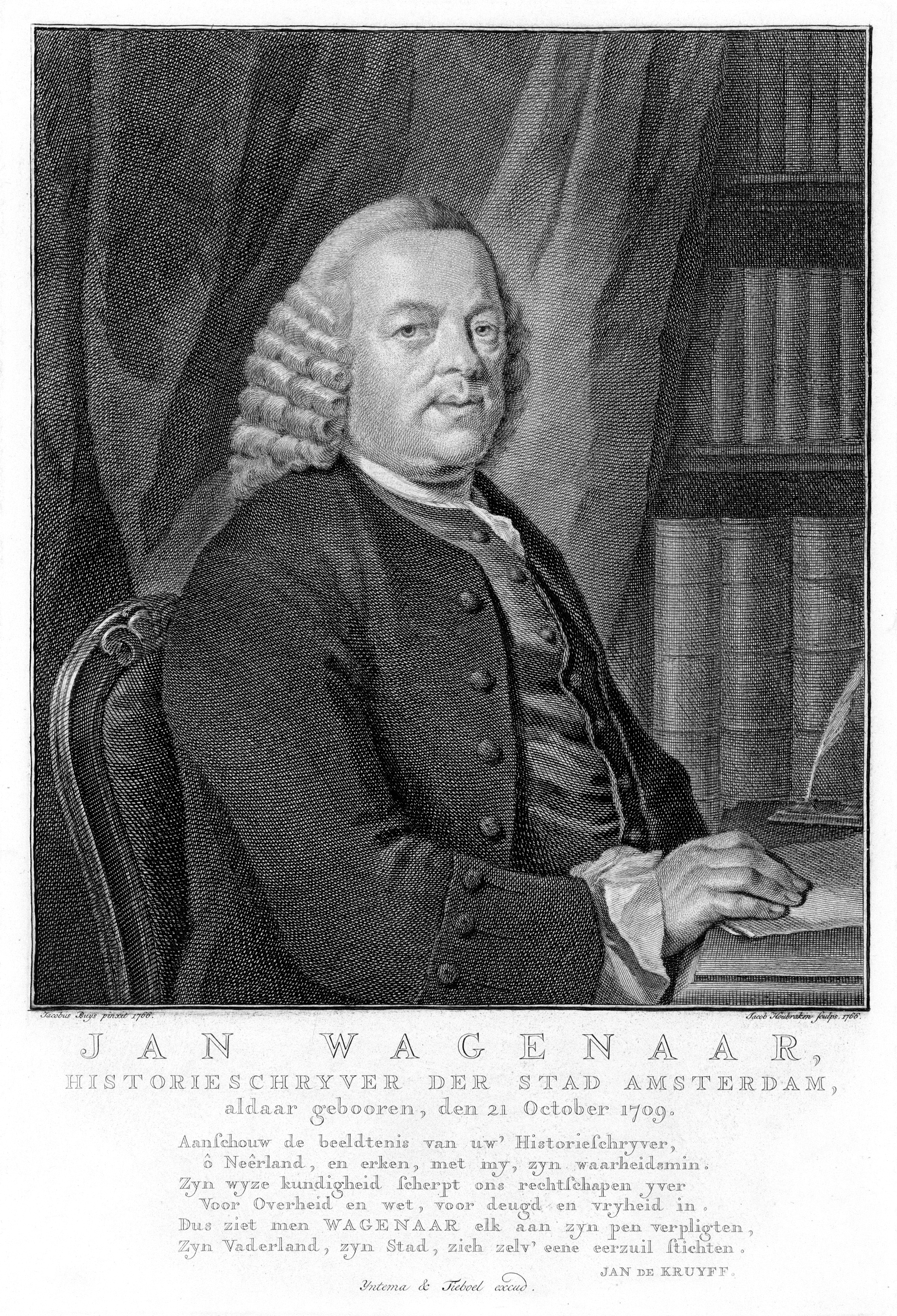 Jan Wagenaar (28-10-1709 - 01-03-1773) engraving 13.1 x 10.3 cm 1766 t/m 1767